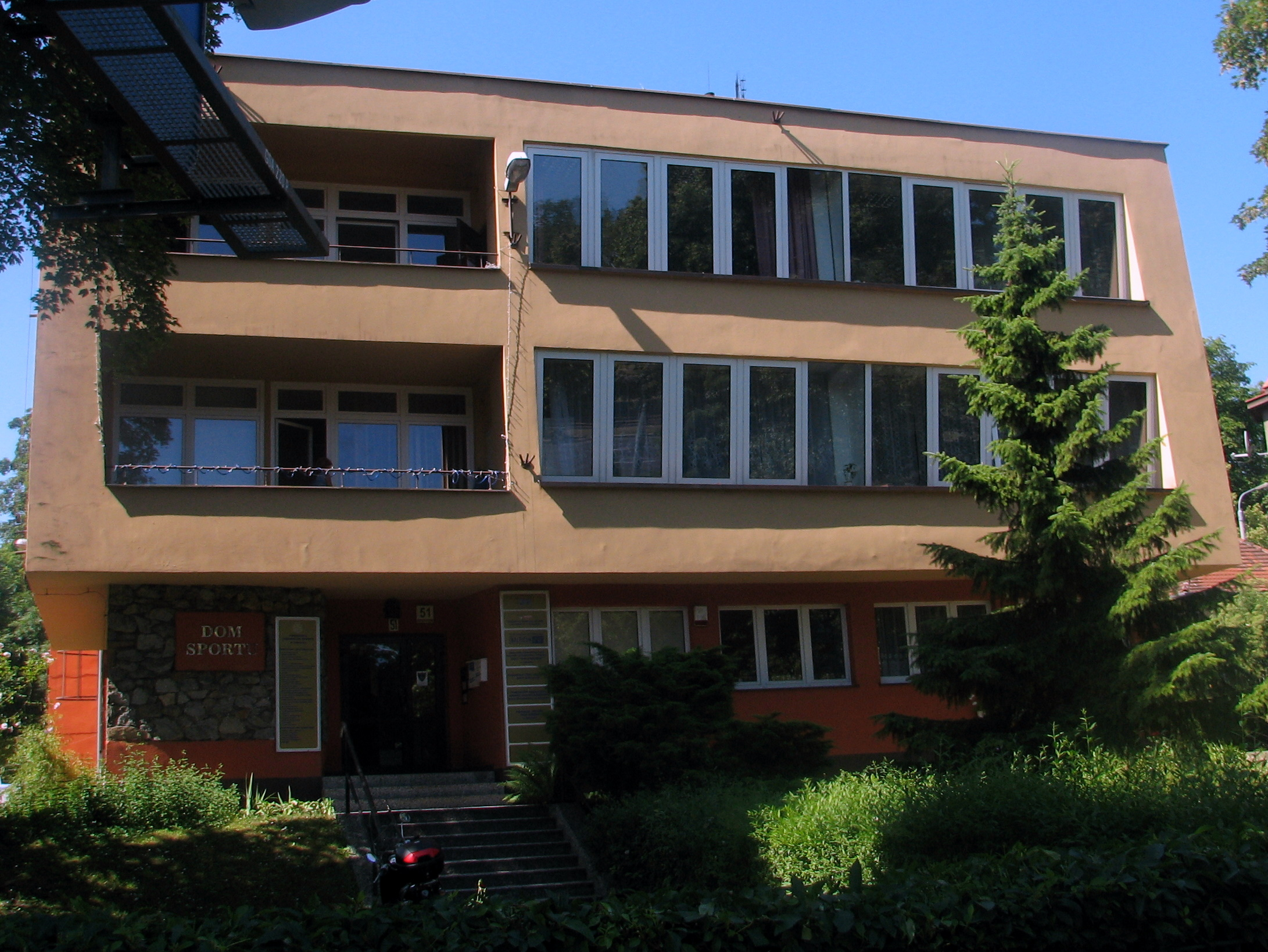 Pomeranian Branch of Polish Football Assocation in Gdańsk.